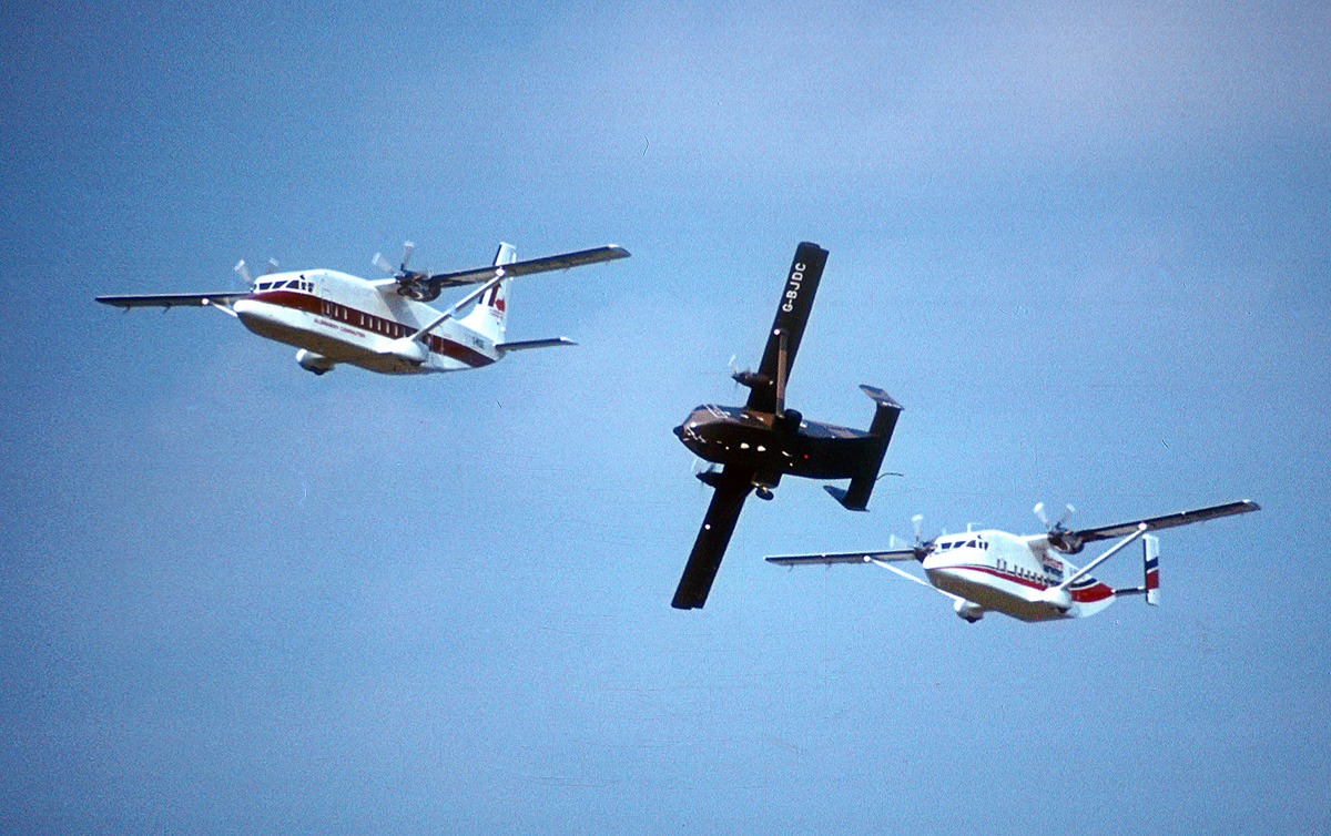 From left to right: Short 360, Short Skyvan and Short 330 at 1982 Farnborough Airshow